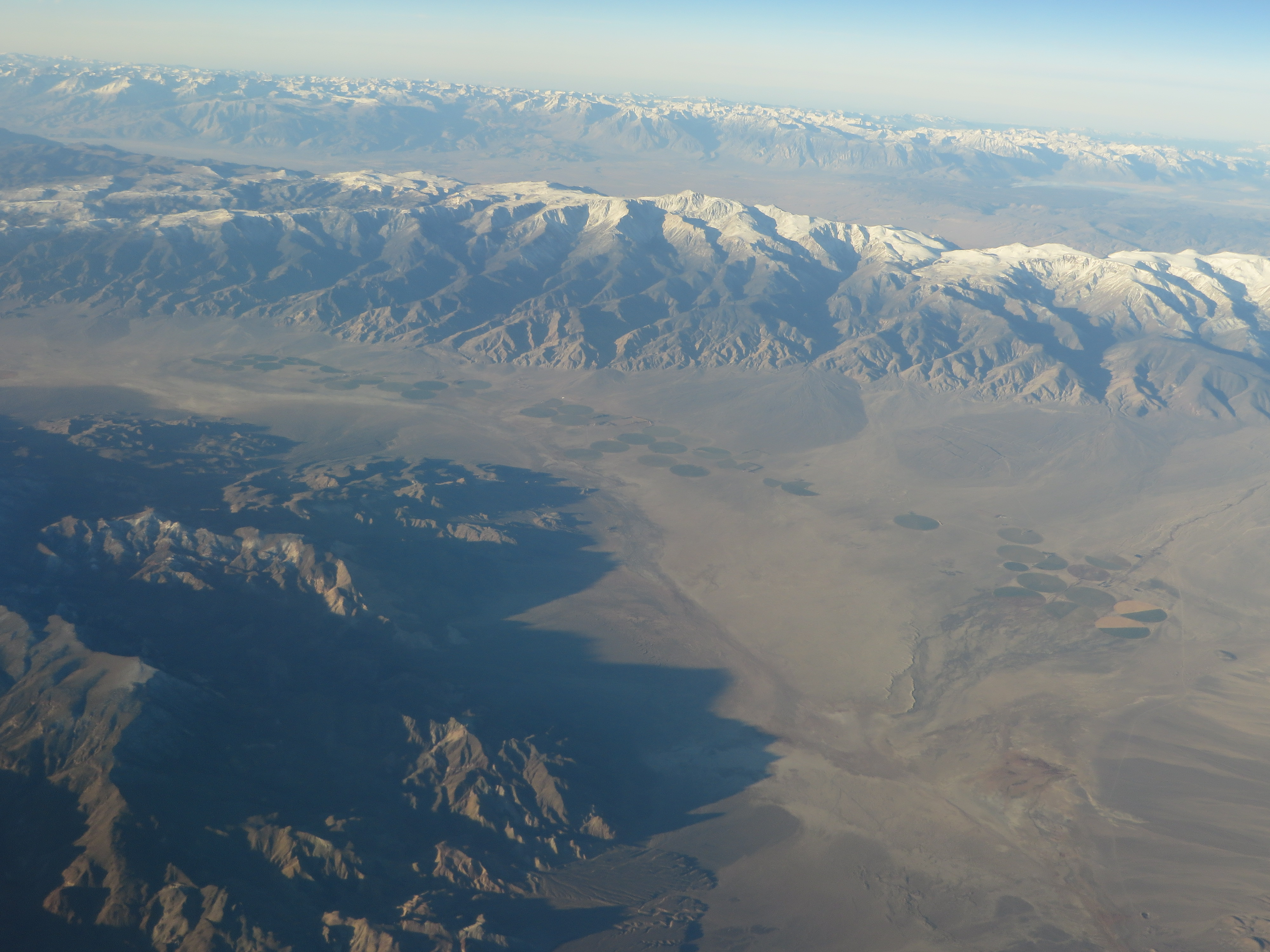 The Fish Lake Valley is a 25 mi (40 km) long endorheic valley in southwest Nevada, once of many continguous inward-draining basins collectively called the Great Basin. The alluvial valley lies just northwest of Death Valley and borders the southeast, and central-northeast flank of the massif of the White Mountains of California. The valley's southern end lies in eastern Inyo County, California. The valley is sparsely populated with ranchers and indigenous Pauite. Business services are located in the valley's only town Dyer.